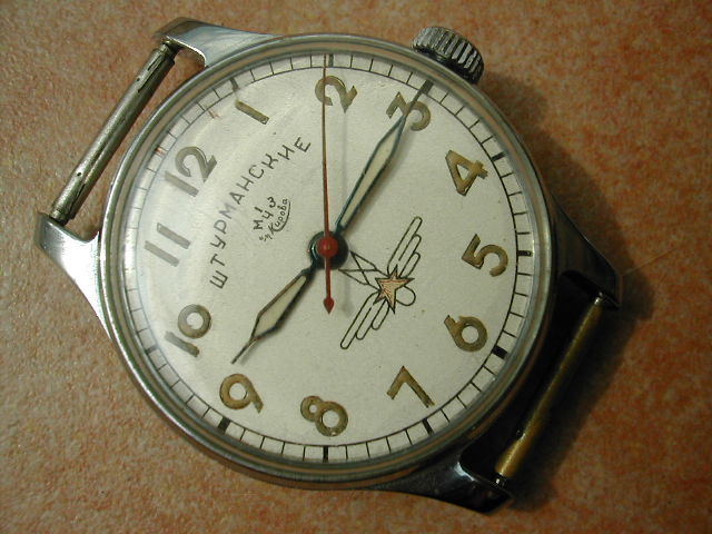 First Moscow Watch Factory "Shturmanskie" (Navigator's) watch as worn by Yuri Gagarin during his historic flight.